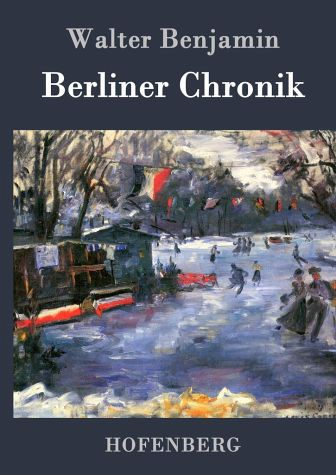 Berliner Chronik by Walter Benjamin book cover. The layout includes Lovis Corinth's Ice Rink in the Berlin Tiergarten (1909), oil on canvas, 64 × 90 cm.